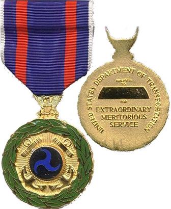 Coast Guard DoTSM